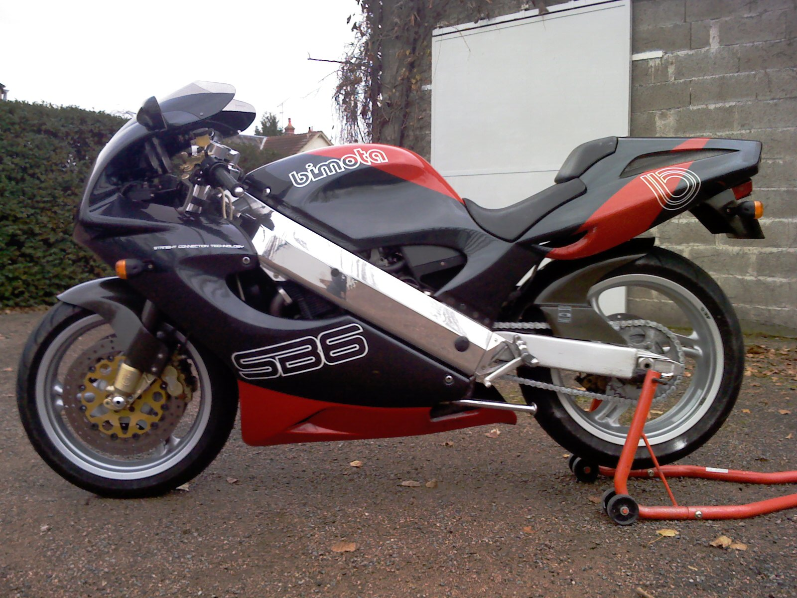 Bimota SB6